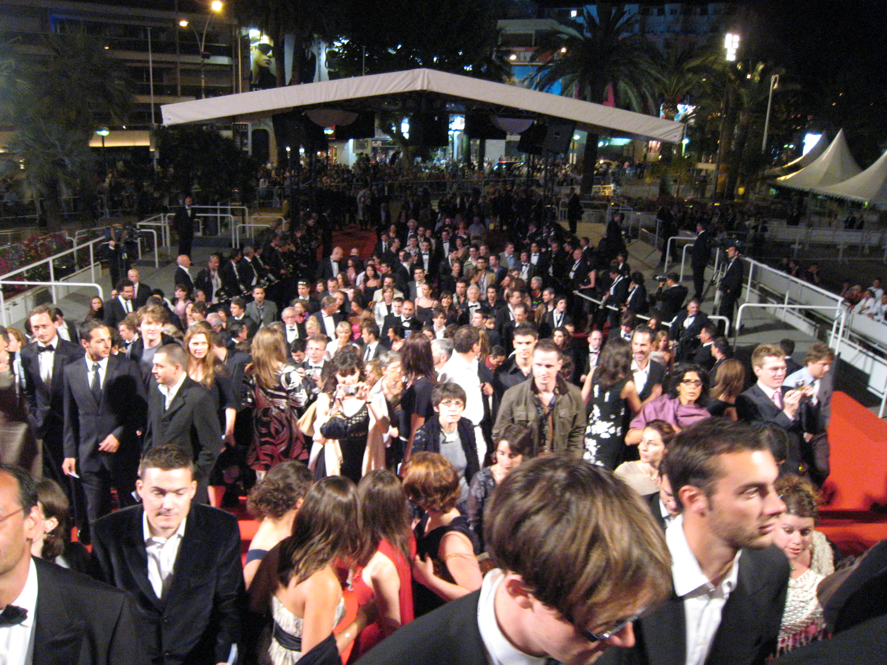 People on Cannes red carpet during the 2007 film festival.